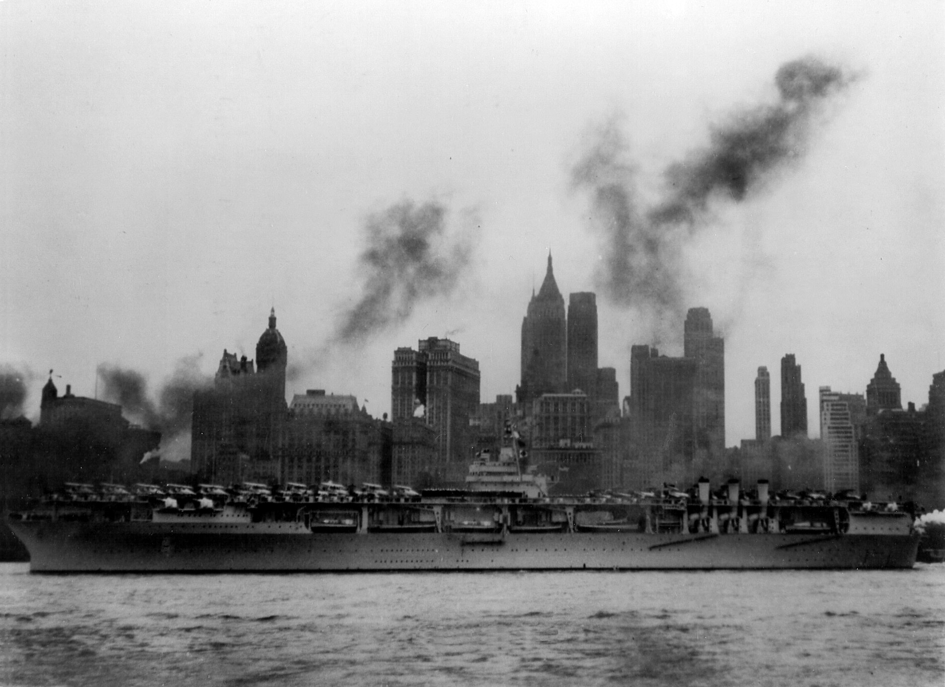 The U.S. Navy aircraft carrier USS Ranger (CV-4) moored at Pier 50 on the Hudson River in New York City (USA) for the 1939 New York World's Fair.